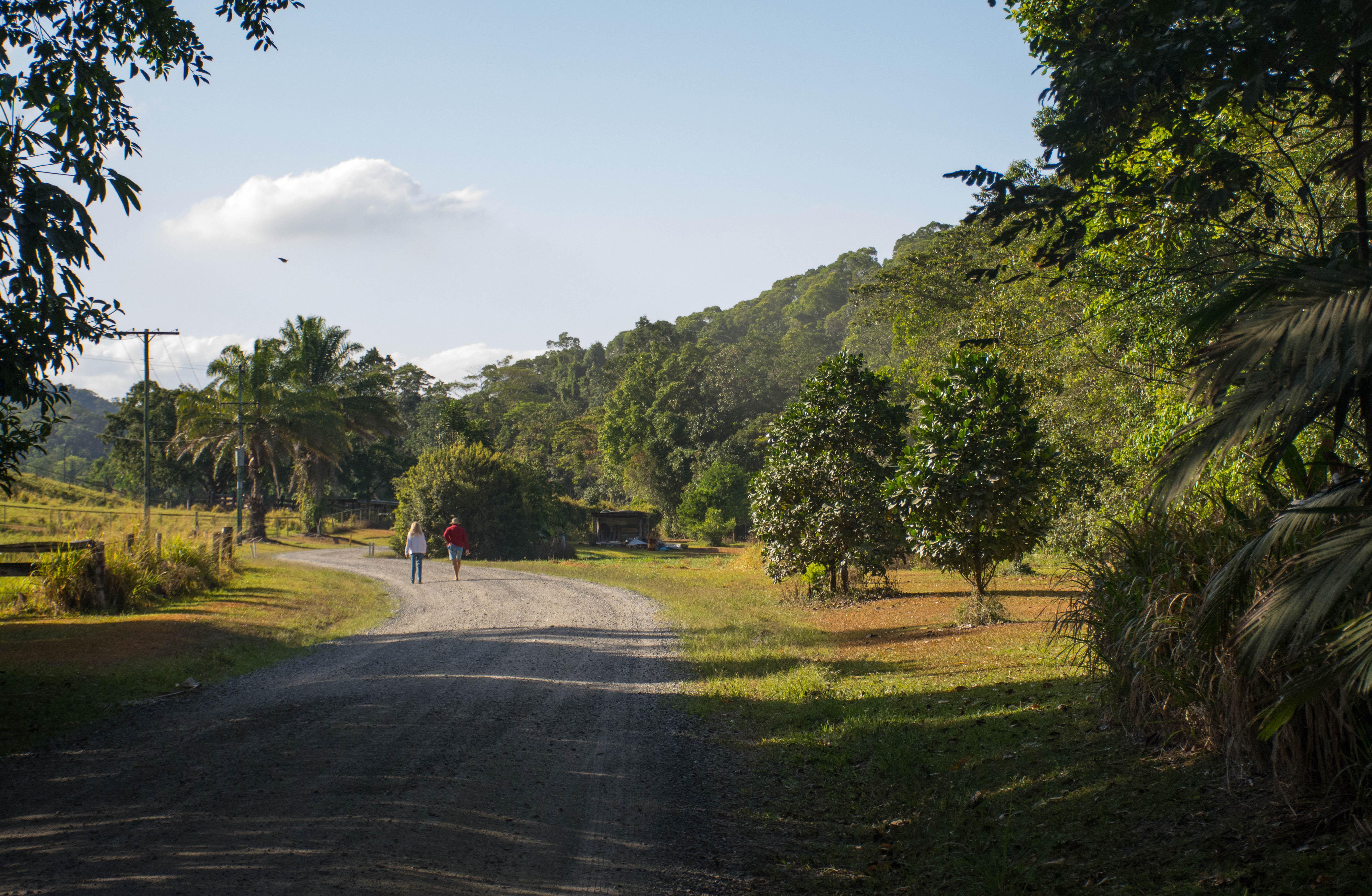 A couple walking along Whyanbeel Road, Whyanbeel, Queensland, Australia.